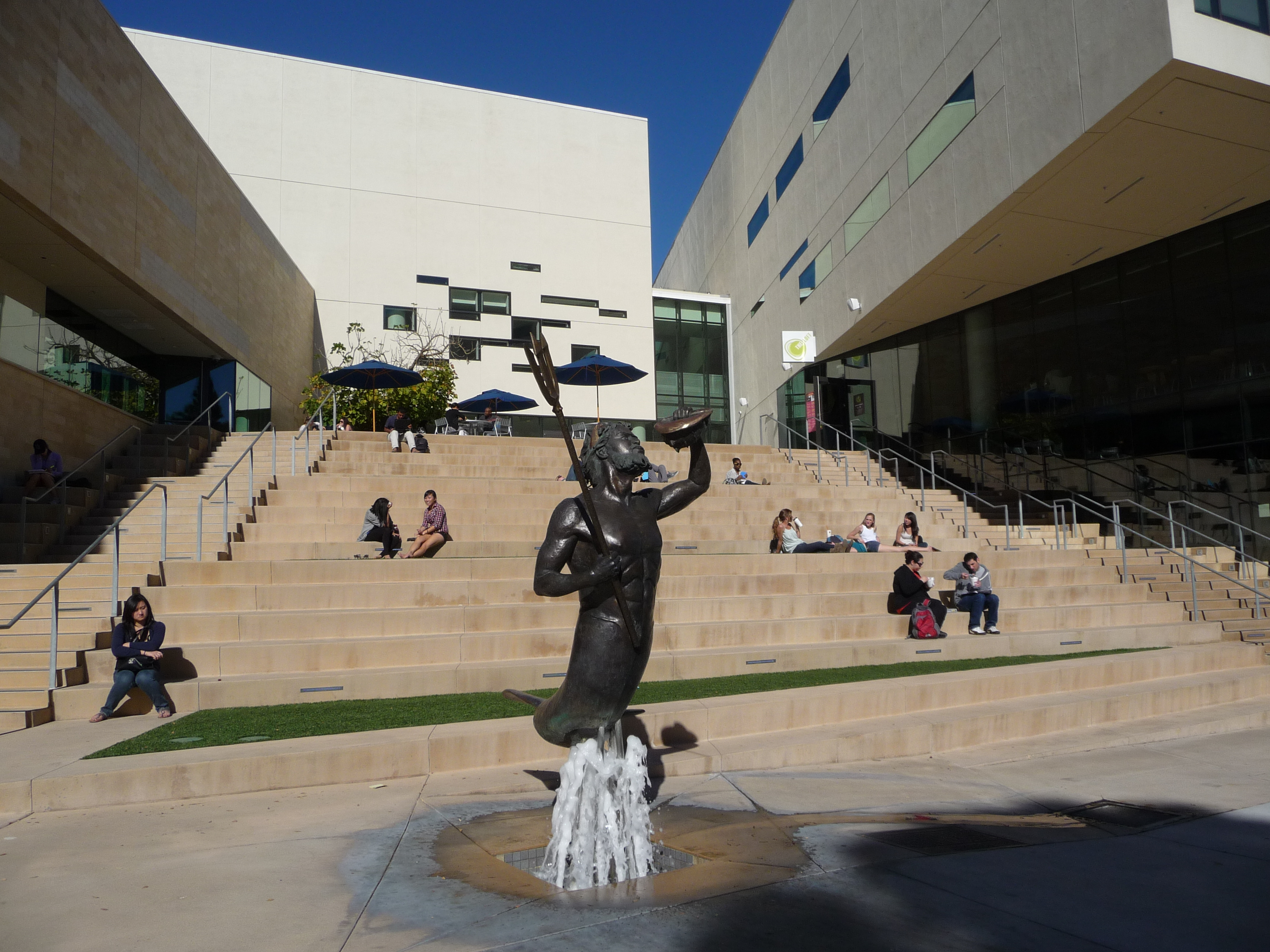 An exterior view of Price Center East (south side) in the central area of UCSD. In the foreground is a statue of the university's mascot, the UCSD Triton.